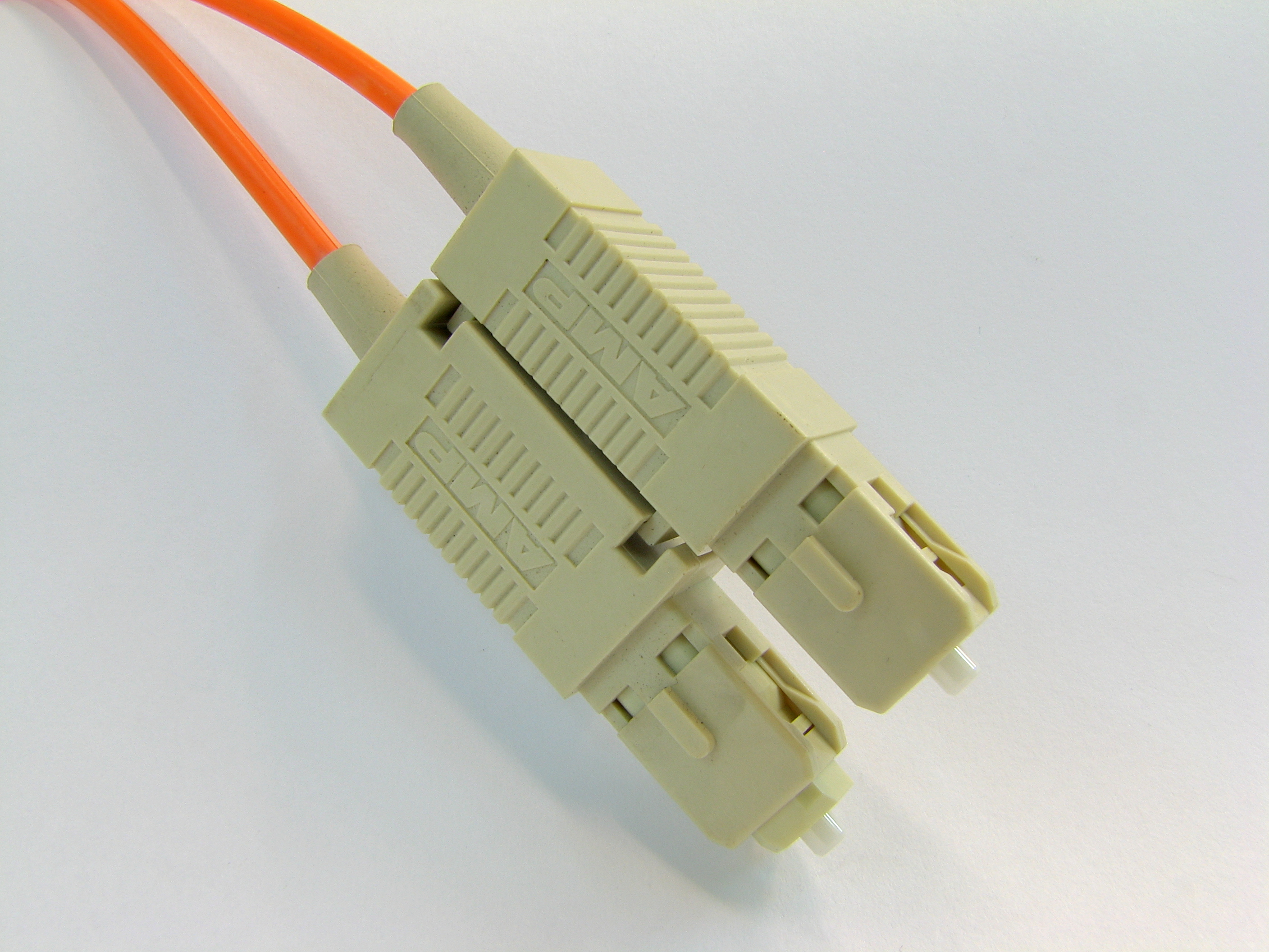 SC optical fiber connector.